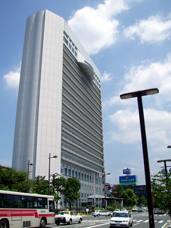 Kurume City Hall in Fukuoka Preferture, Japan